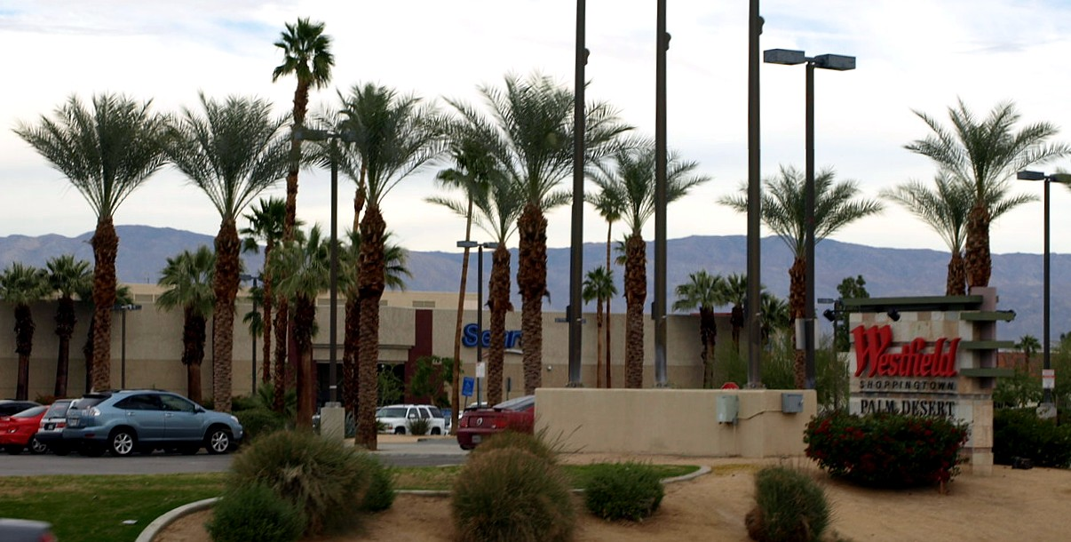 View of the main street entrance of the Westfield Palm Desert shopping mall with the Sears department store anchor in the background. View from southbound lane of CA SR 111, looking north northwest. This photograph was taken with an Olympus E-510 DSLR camera and edited (cropping, brightness, contrast, saturdation) using ArcSoft Photostudio 5.5